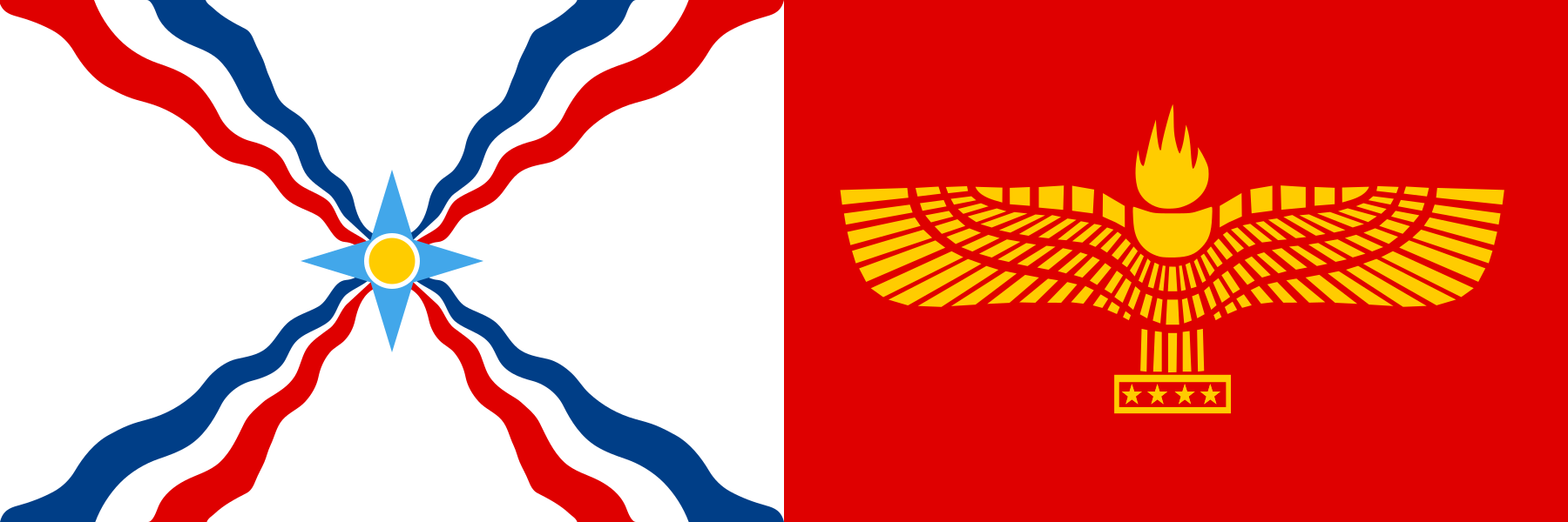 The Assyrian Flag (left) and the Aramean Flag (right). 2 Flags put together as unity.